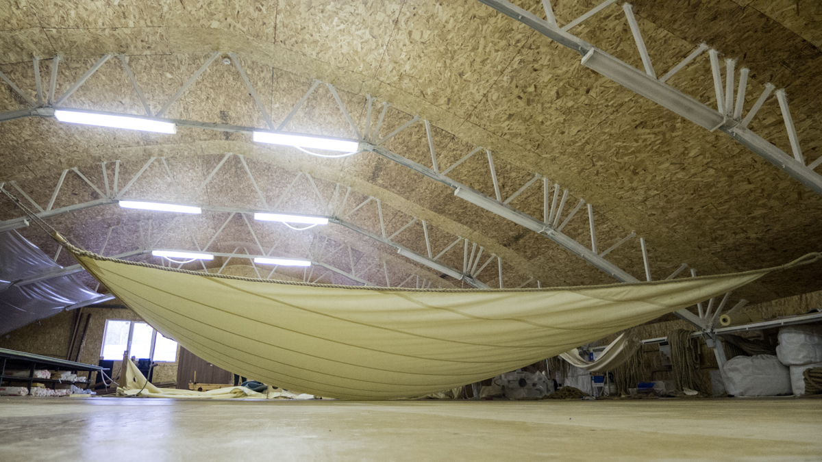 First sail of the ship «Poltava», February 2015